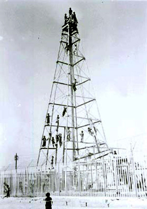 The Well number one (Masjed Soleyman Well) was first Oil Well in Iran. The Well Was drilled in 23th of January 1908 by Anglo-Persian Oil Company and It completed in 26th of May in the same year.